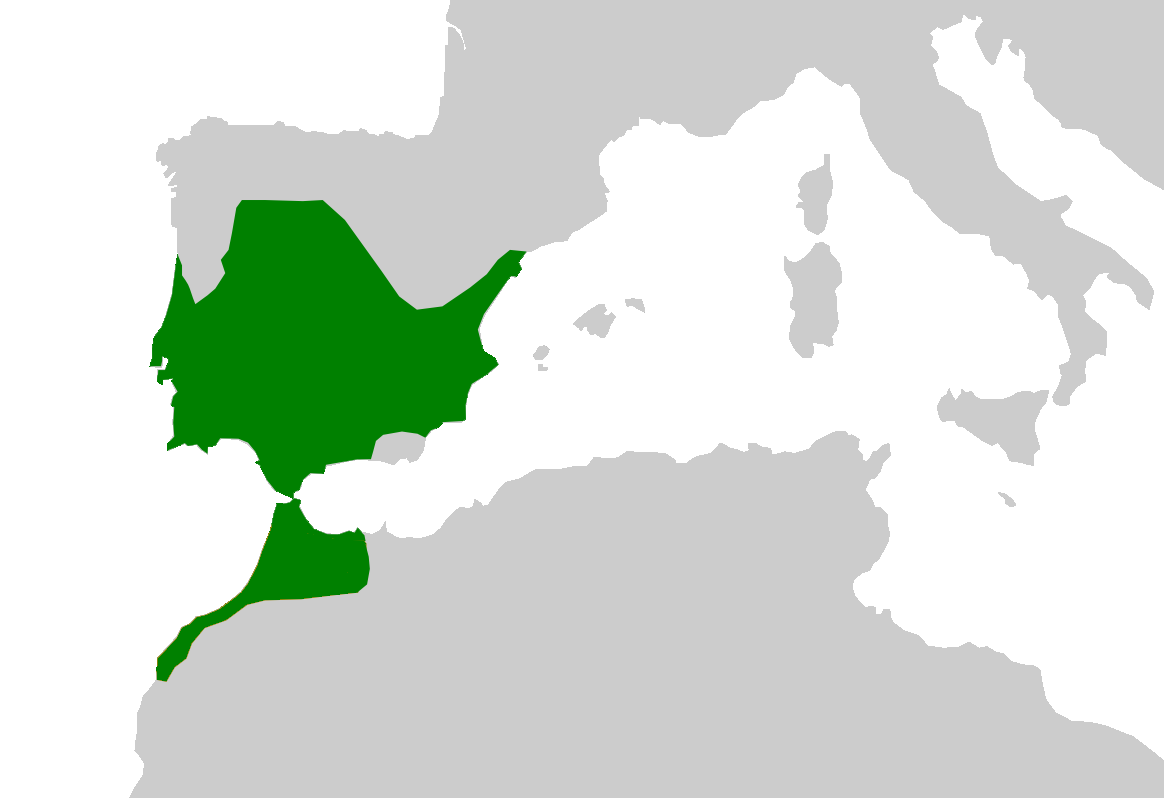 Pleurodeles waltl distribution map.